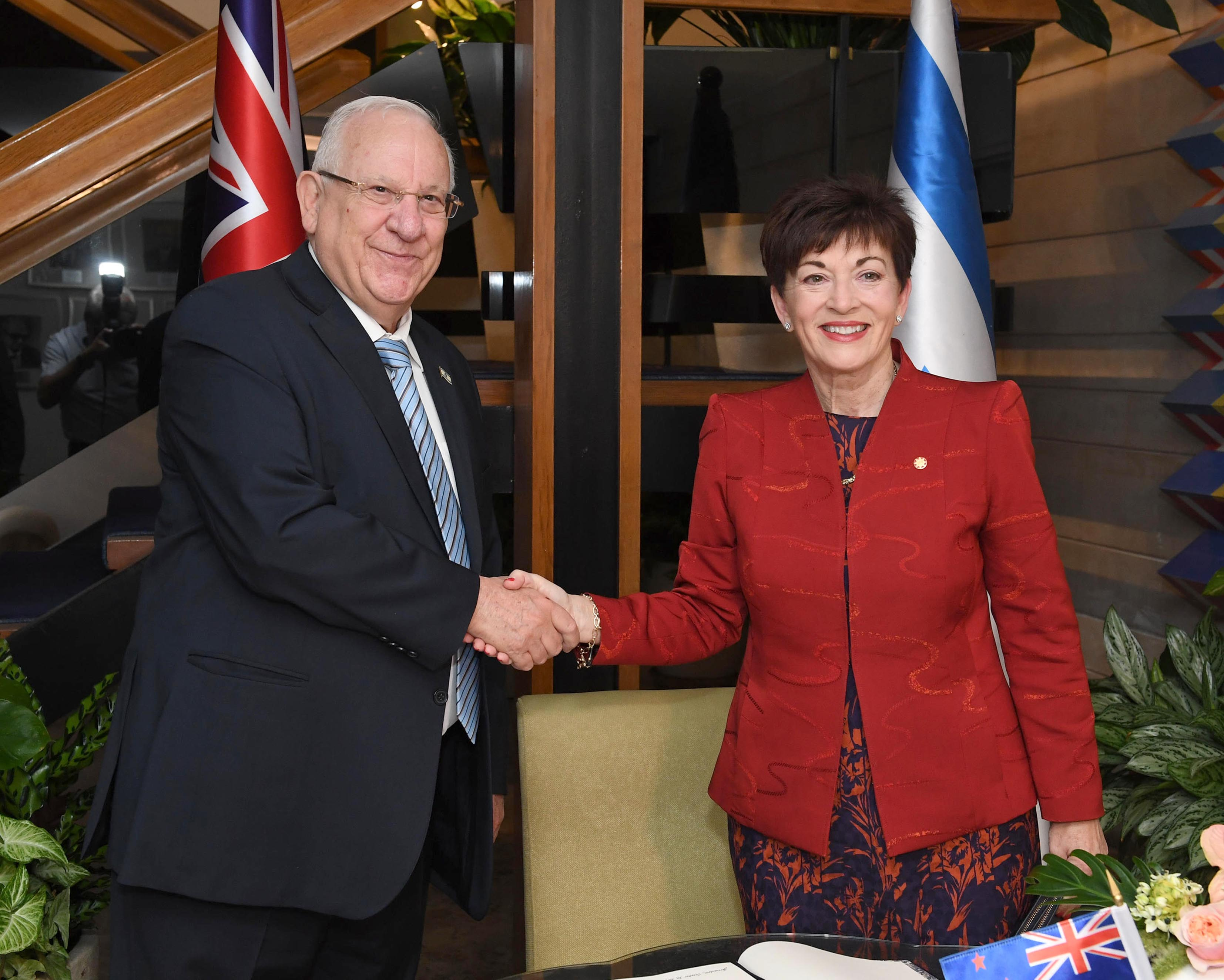 President of the State of Israel, Reuven Rivlin, and his wife, Nechama, host the New Zealand Governor General who visits Israel as part of the events commemorating the 100th anniversary of the liberation of Beersheba by the ANZAC forces on Monday, October 30, 2017. Photo credit: Mark Neyman / GPO.